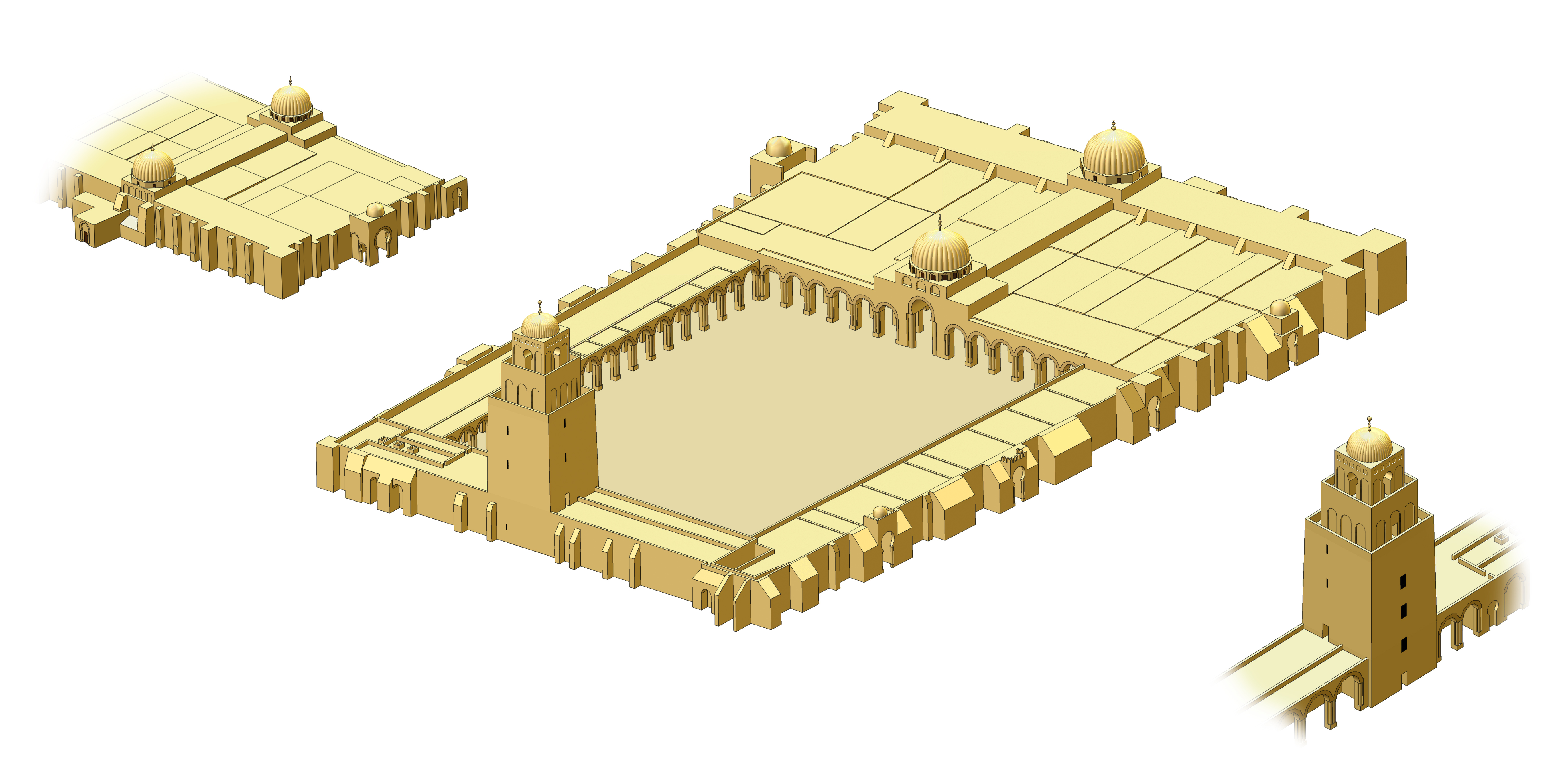 Three-dimensional views of the Great Mosque of Kairouan, Tunisia. From left to right: zoom on the south wall (seen from the outside), global view of the mosque, zoom on the minaret seen from the court.